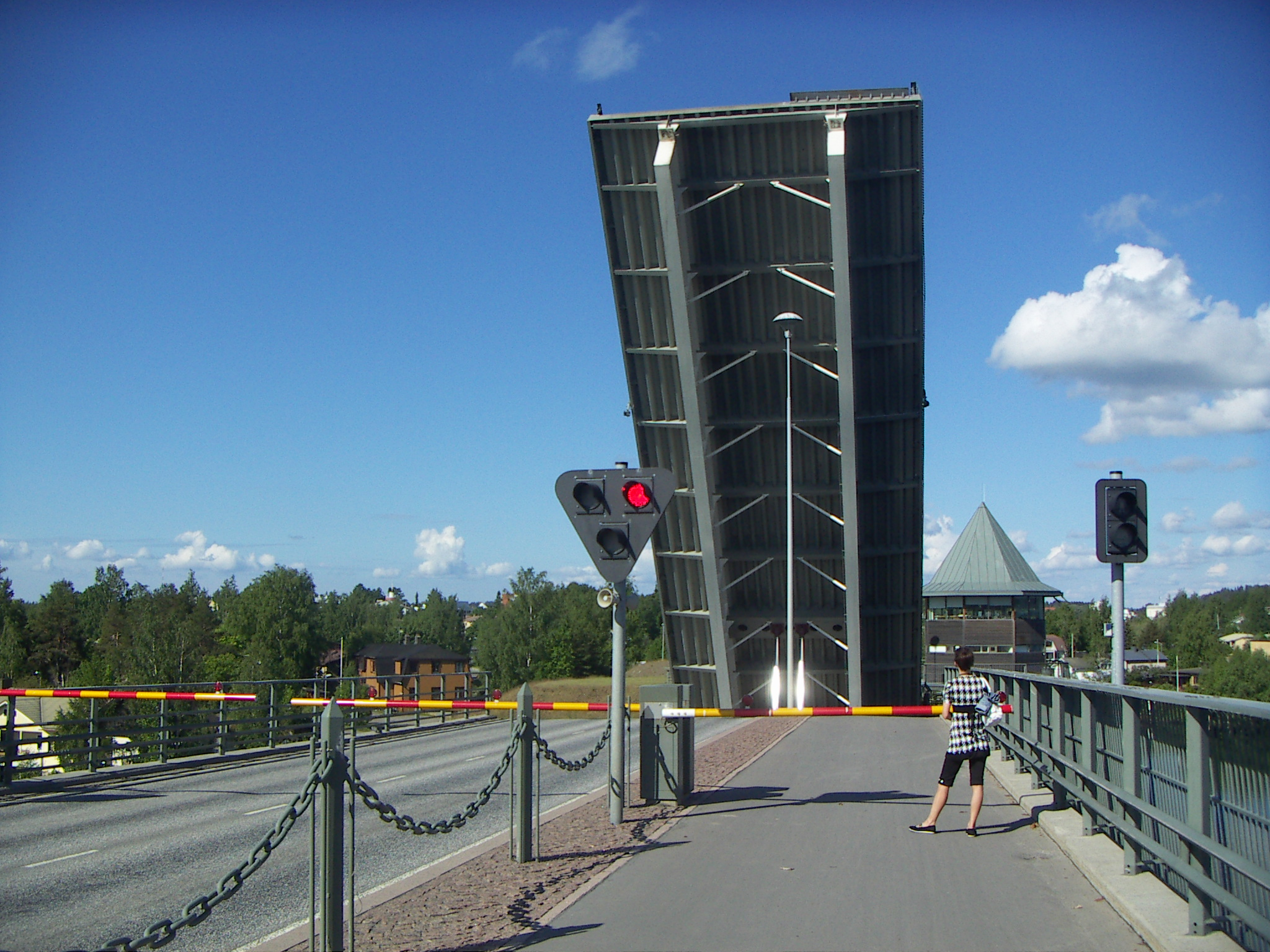 Kyrönsalmi bridge carrying National road 14 opening